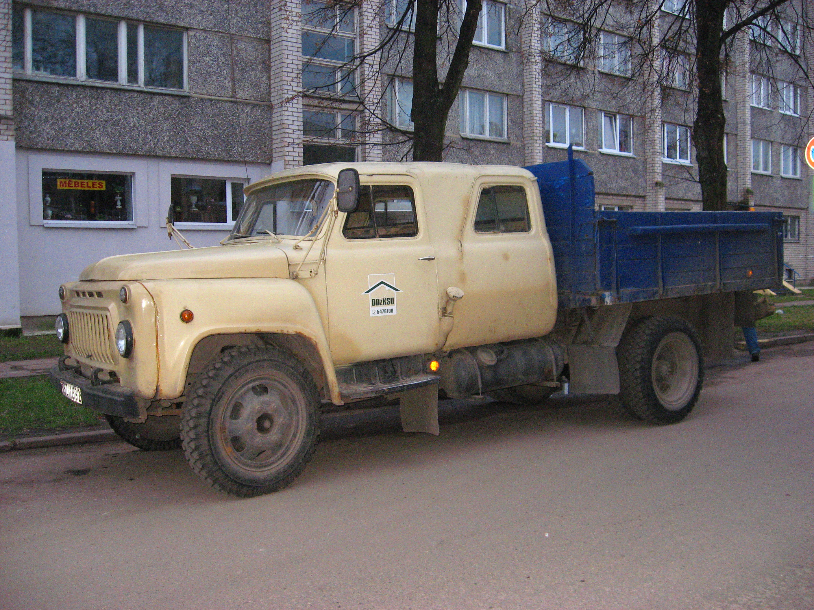 Truck in Daugavpils.